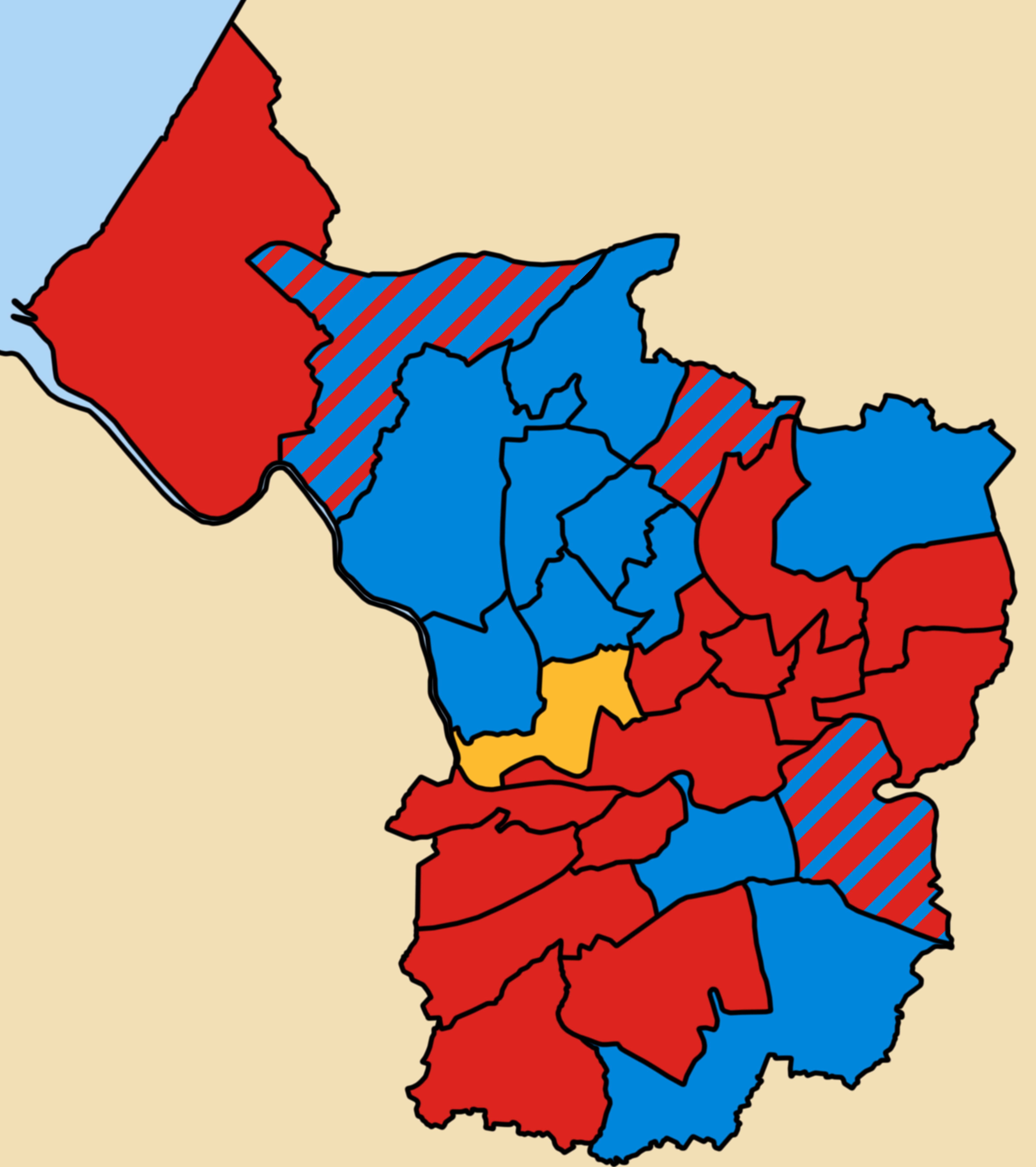 Results of the 1976 local elections in Bristol Colours: Conservative Labour Liberal